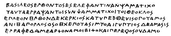 The earliest known Greek inscription (Abu Simbel, Egypt)